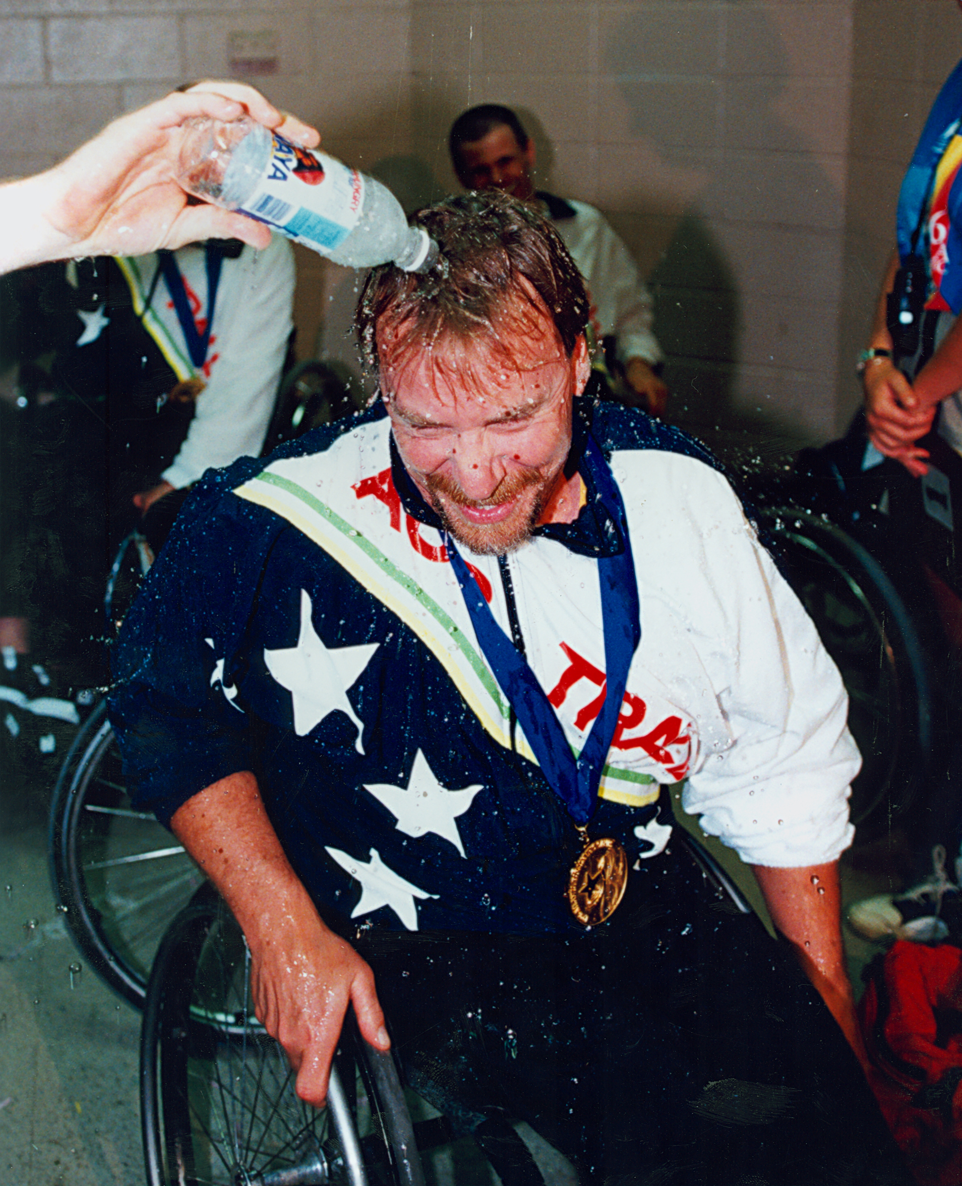 Australian wheelchair basketballer Richard Oliver is sprayed with water after being presented with the gold medal at the Atlanta 1996 Paralympic Games.